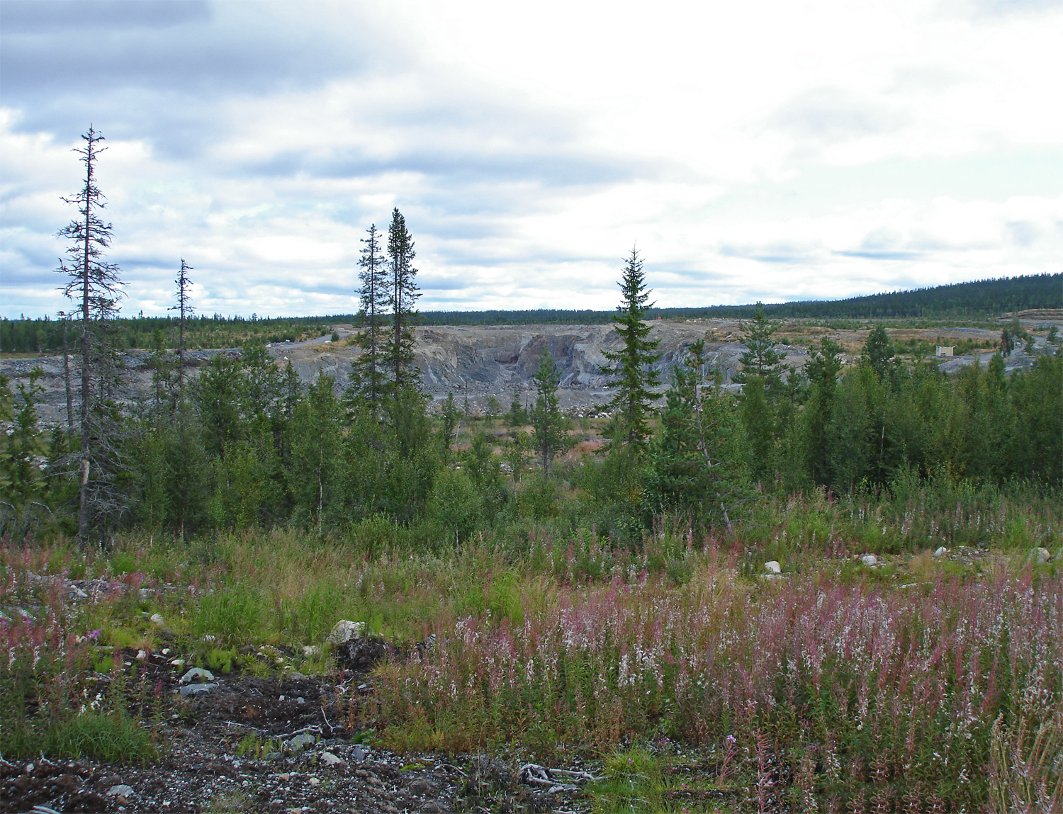 Svartliden mine, a gold mine in Lycksele Municipality, northern Sweden